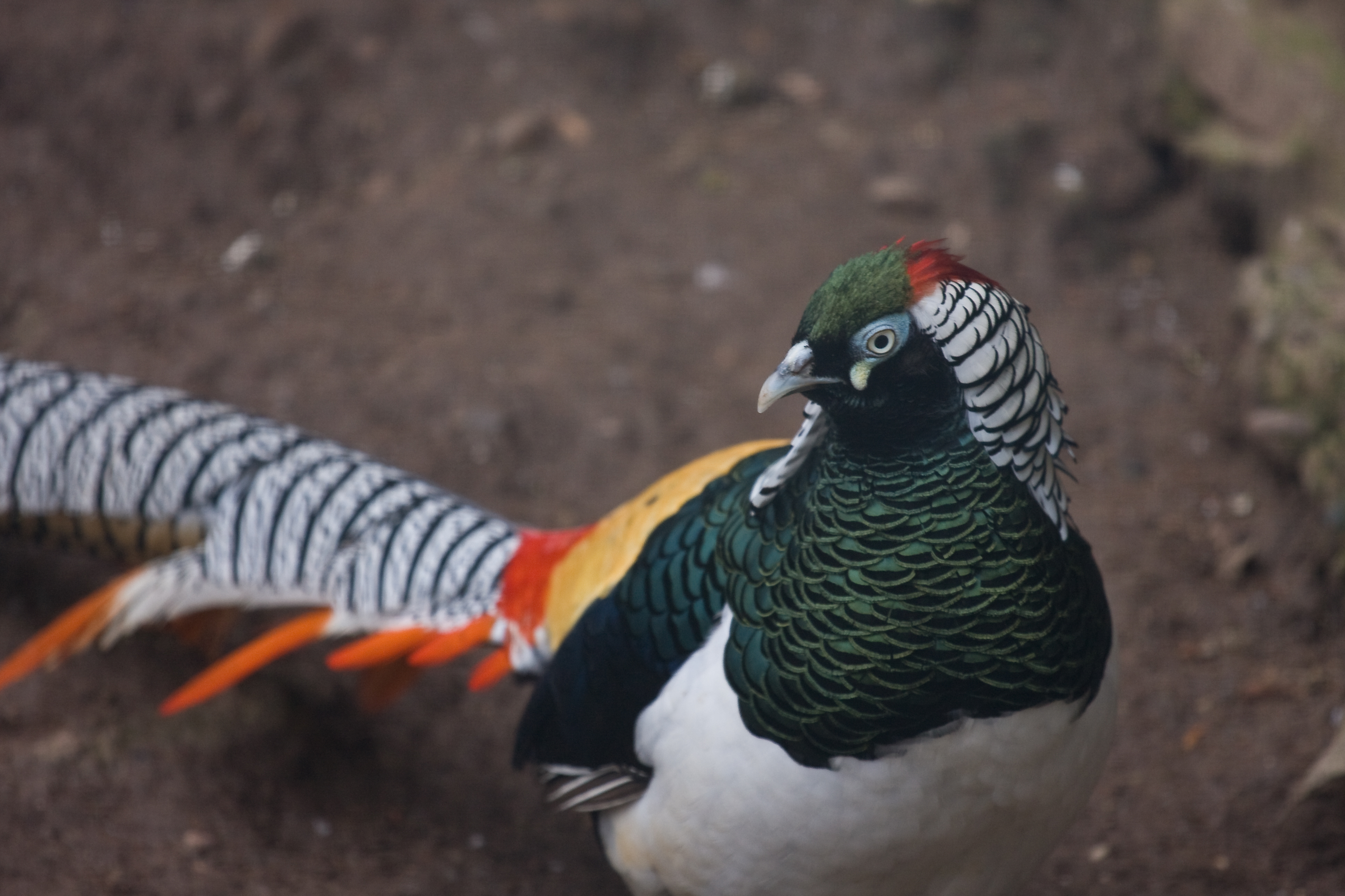 Lady Amherst's Pheasant (Chrysolophus amherstiae) IMG_7786 Focal length 200mm, Aperture f/4.0, Shutter Speed 1/200sec, ISO 400